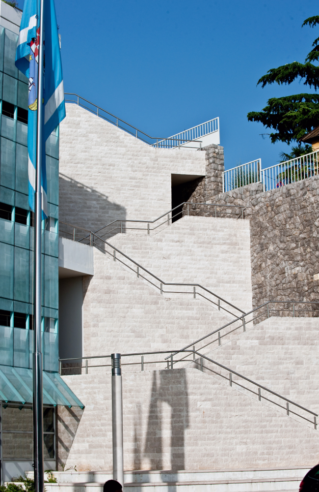 Kantrida Swimming Pools